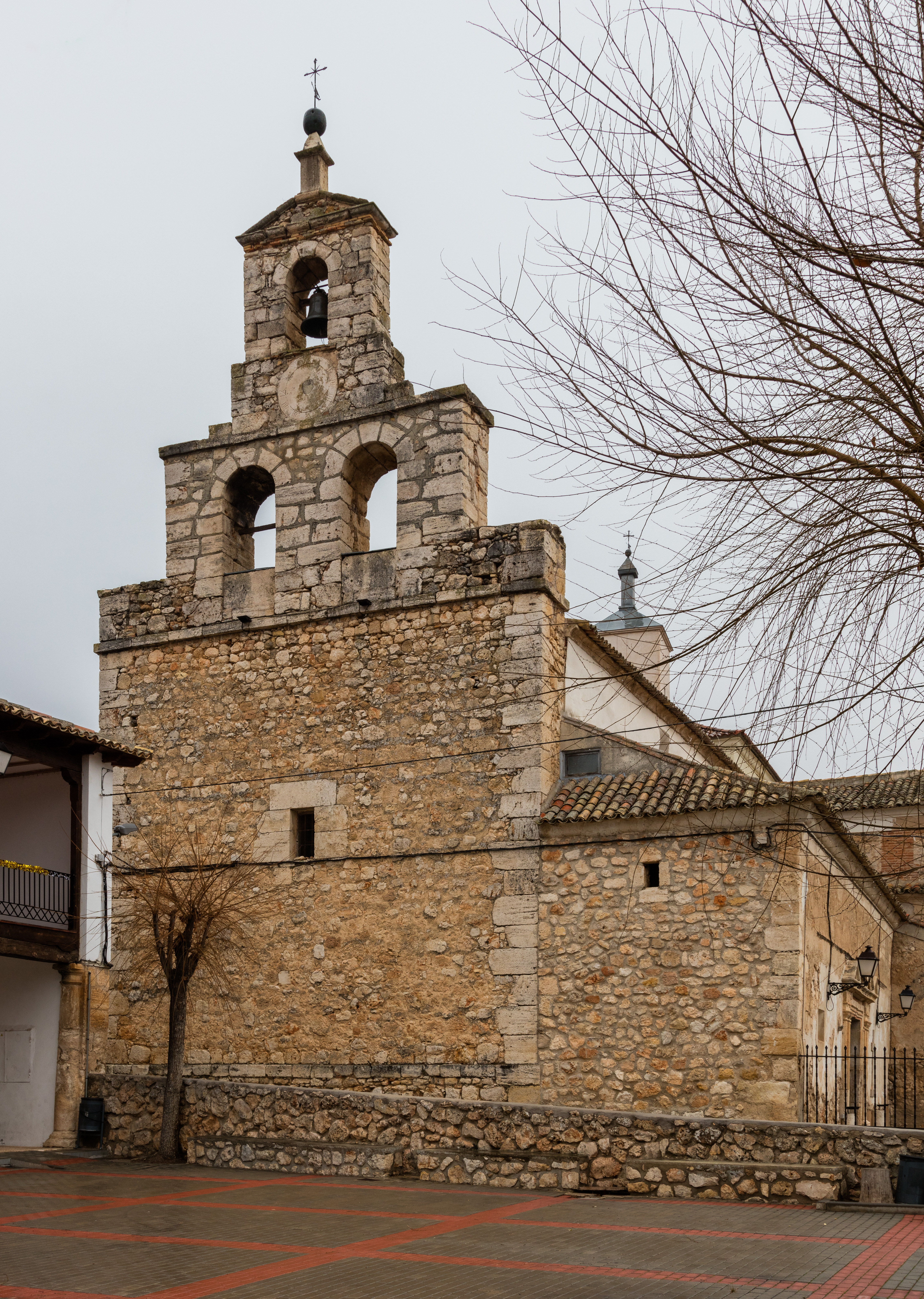 Church of Our Lady of the Assumption, Renera, Guadalajara, Spain